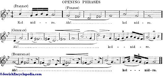 The different openings of Kol Nidre